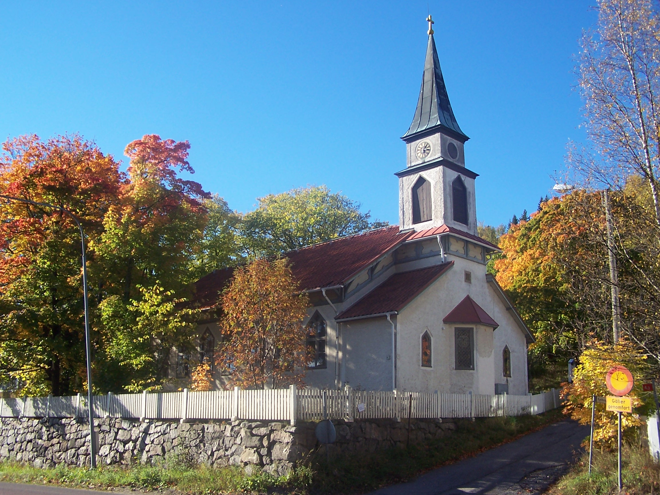 Svartvik church, south of Sundsvall, Sweden